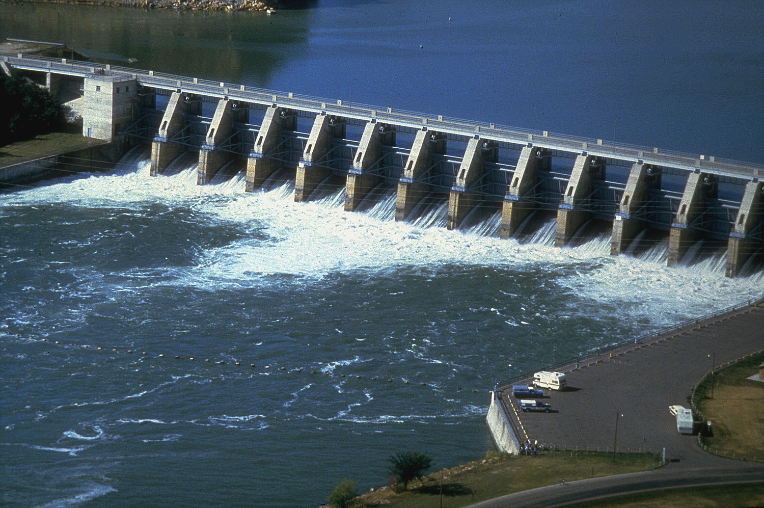 Gavins Point Dam on the Missouri River near Yankton, South Dakota, USA. The dam lies across the South Dakota-Nebraska state border.